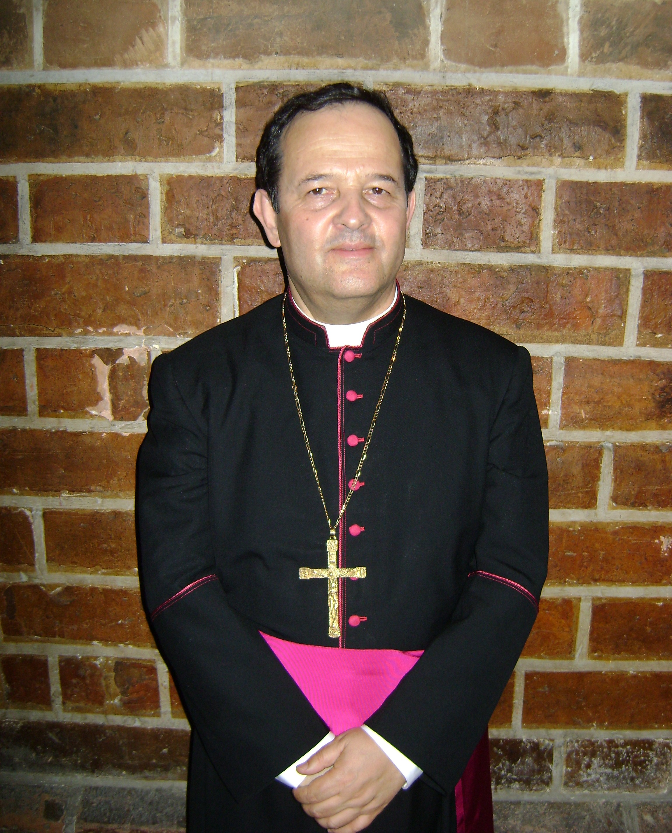 Monsignor Ricardo Tobon Restrepo, Archbishop of the Archdiocese of Medellín